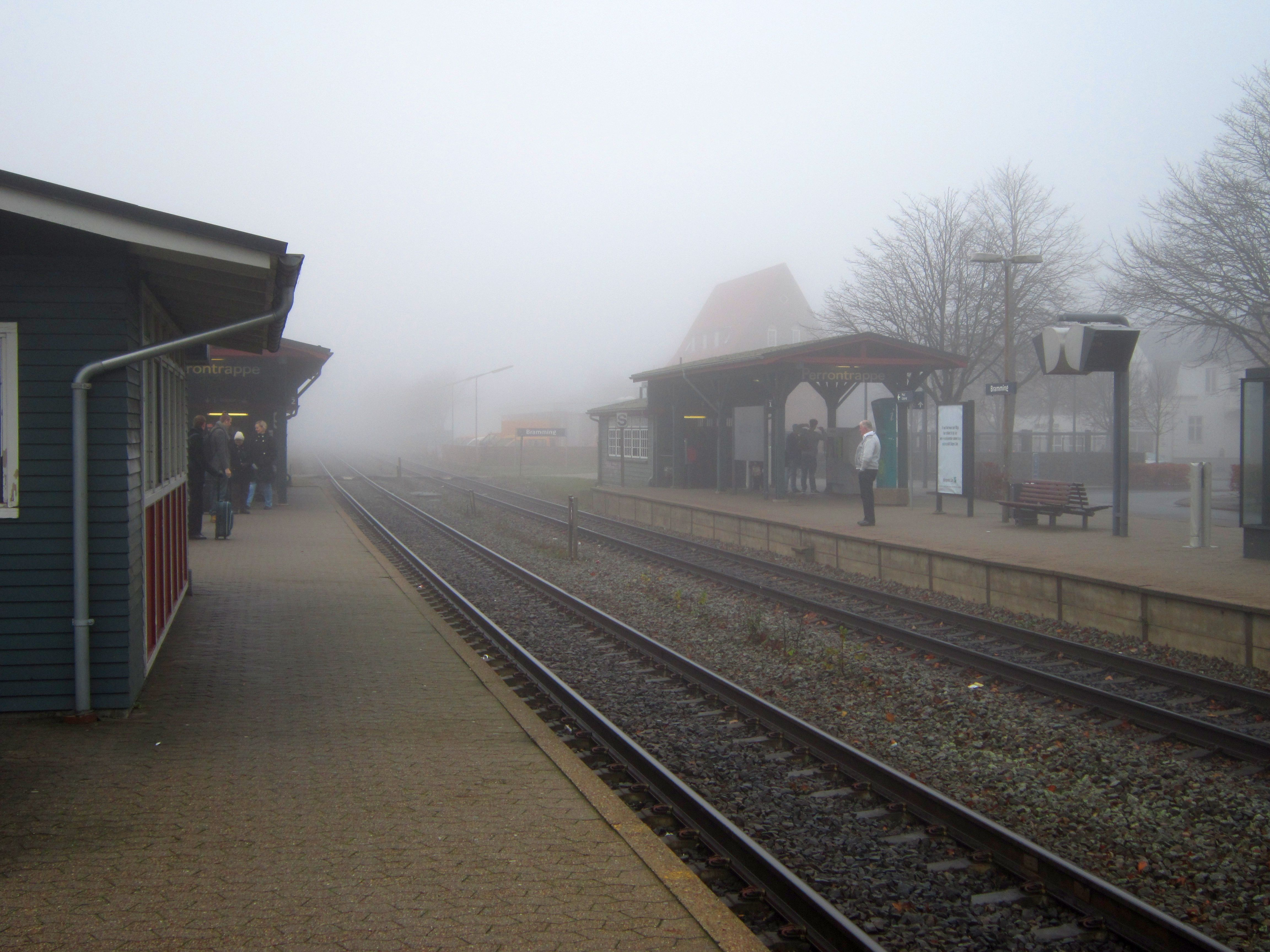 Bramming Station